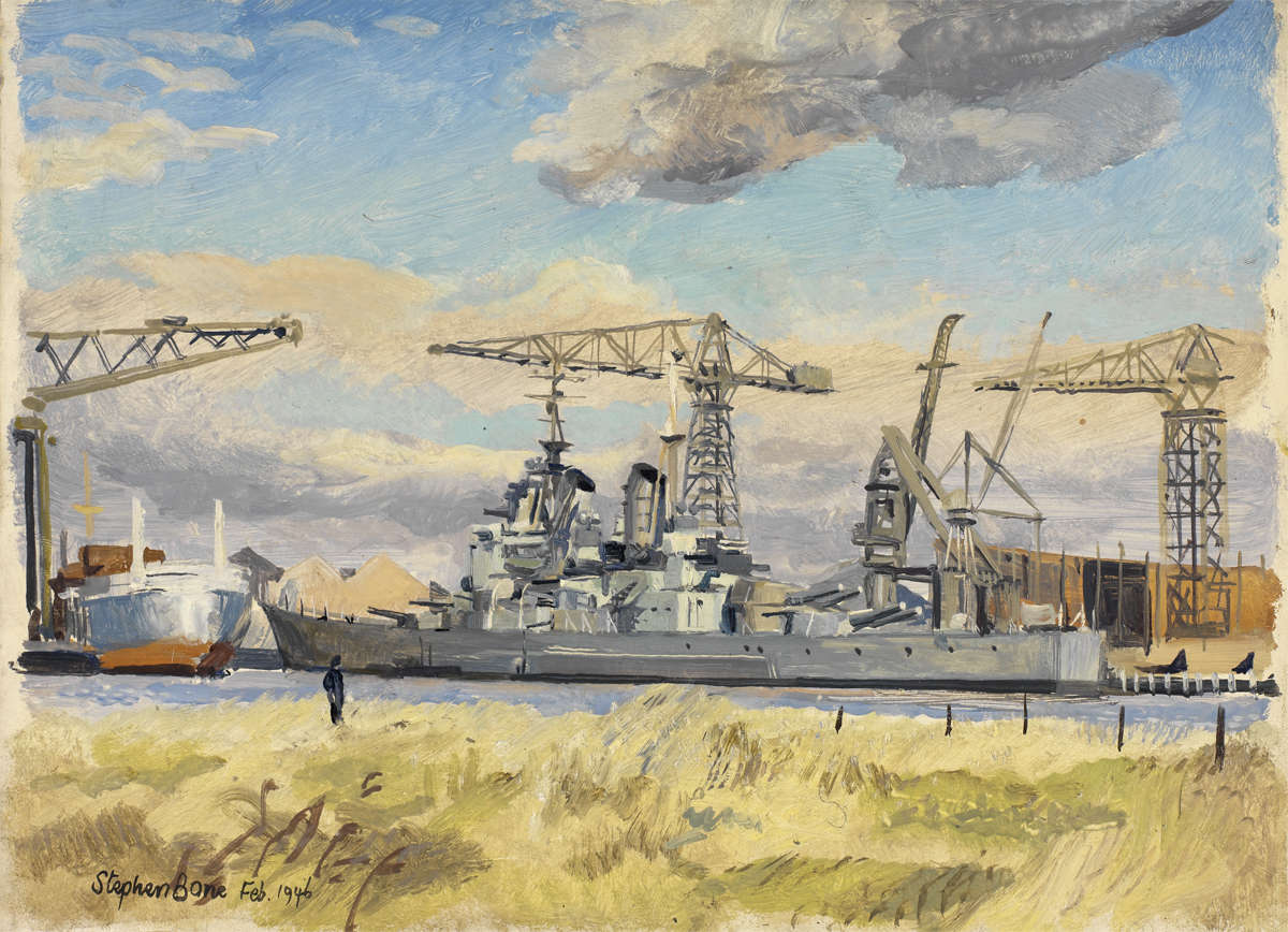 Bone, Stephen; HMS 'Vanguard' from across the Clyde, February 1946; IWM (Imperial War Museums)